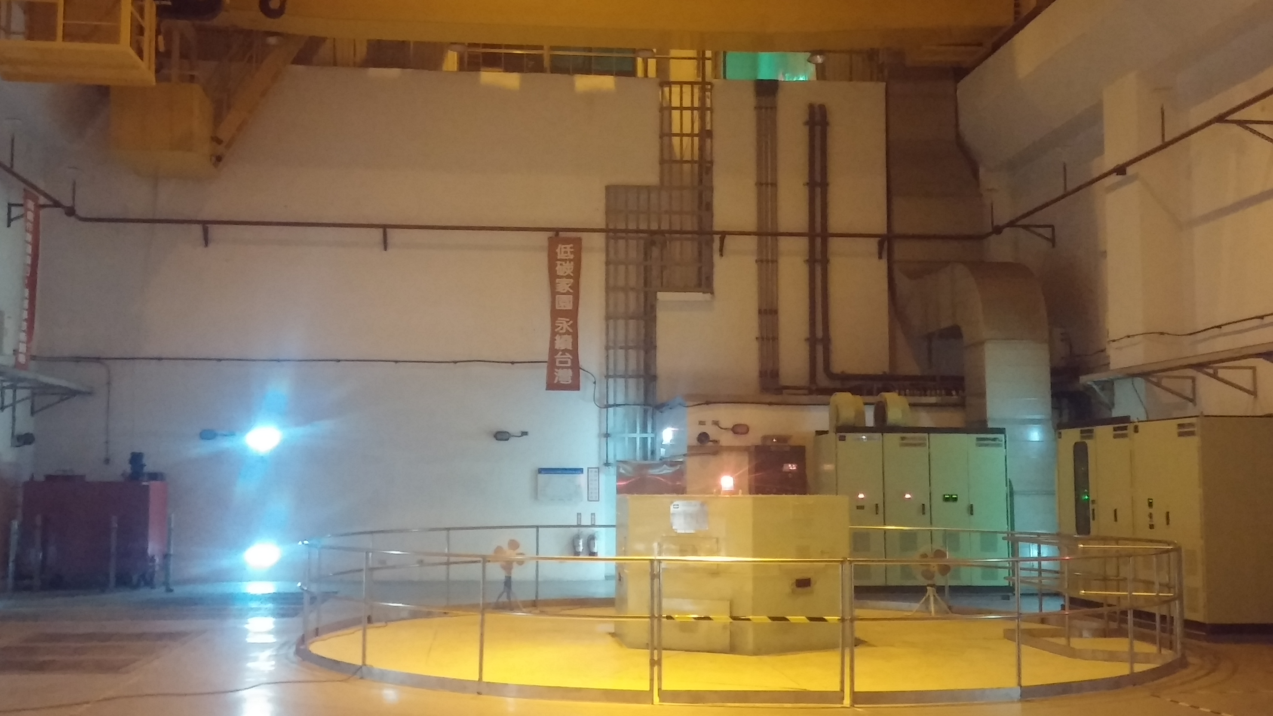 Taiwan power Company The Eastern Power plant Be-Hi Hydroelectricity